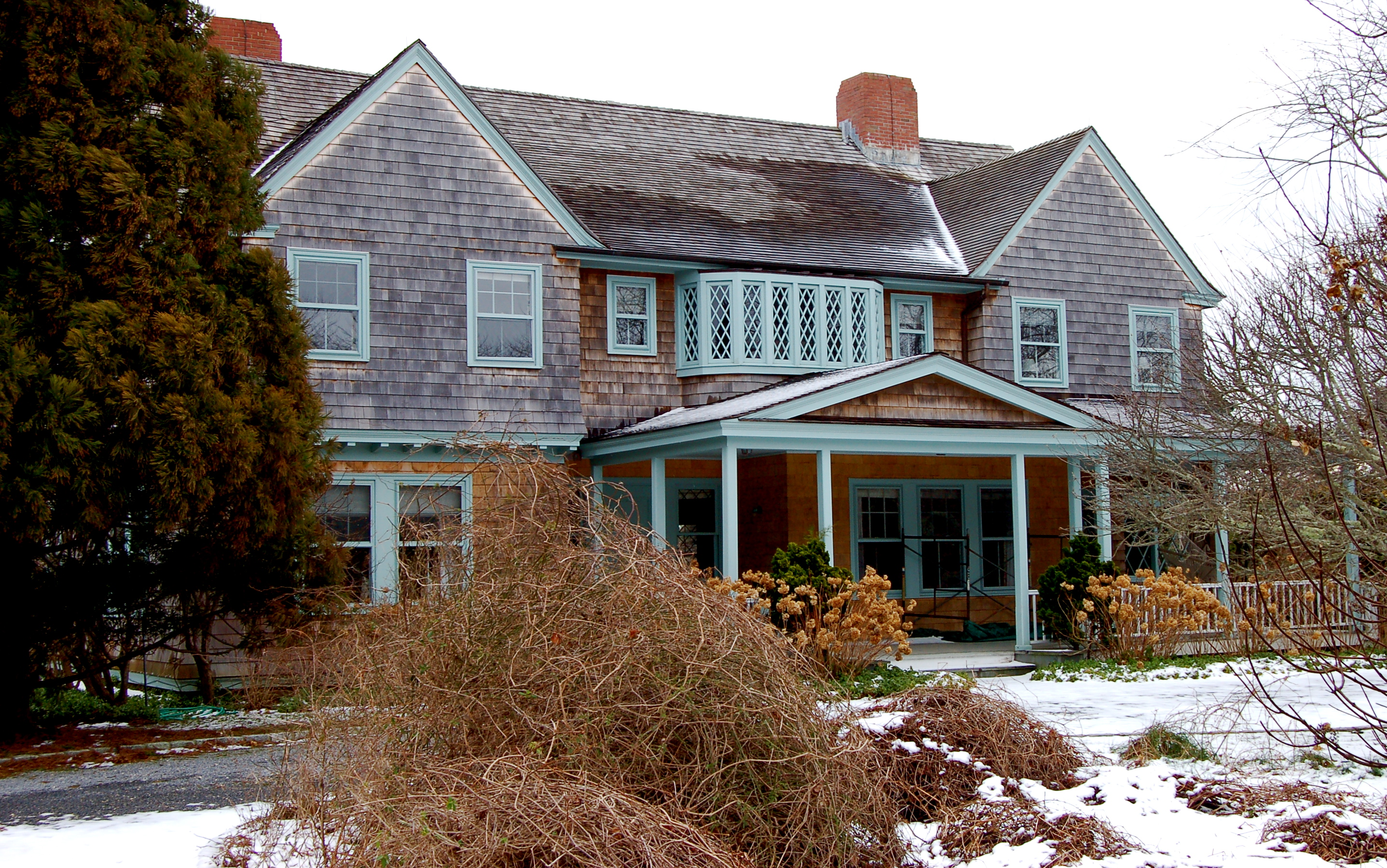 Front side of Grey Gardens, facing the street, in January of 2009. 3 West End Road, Georgica Pond; East Hampton NY.